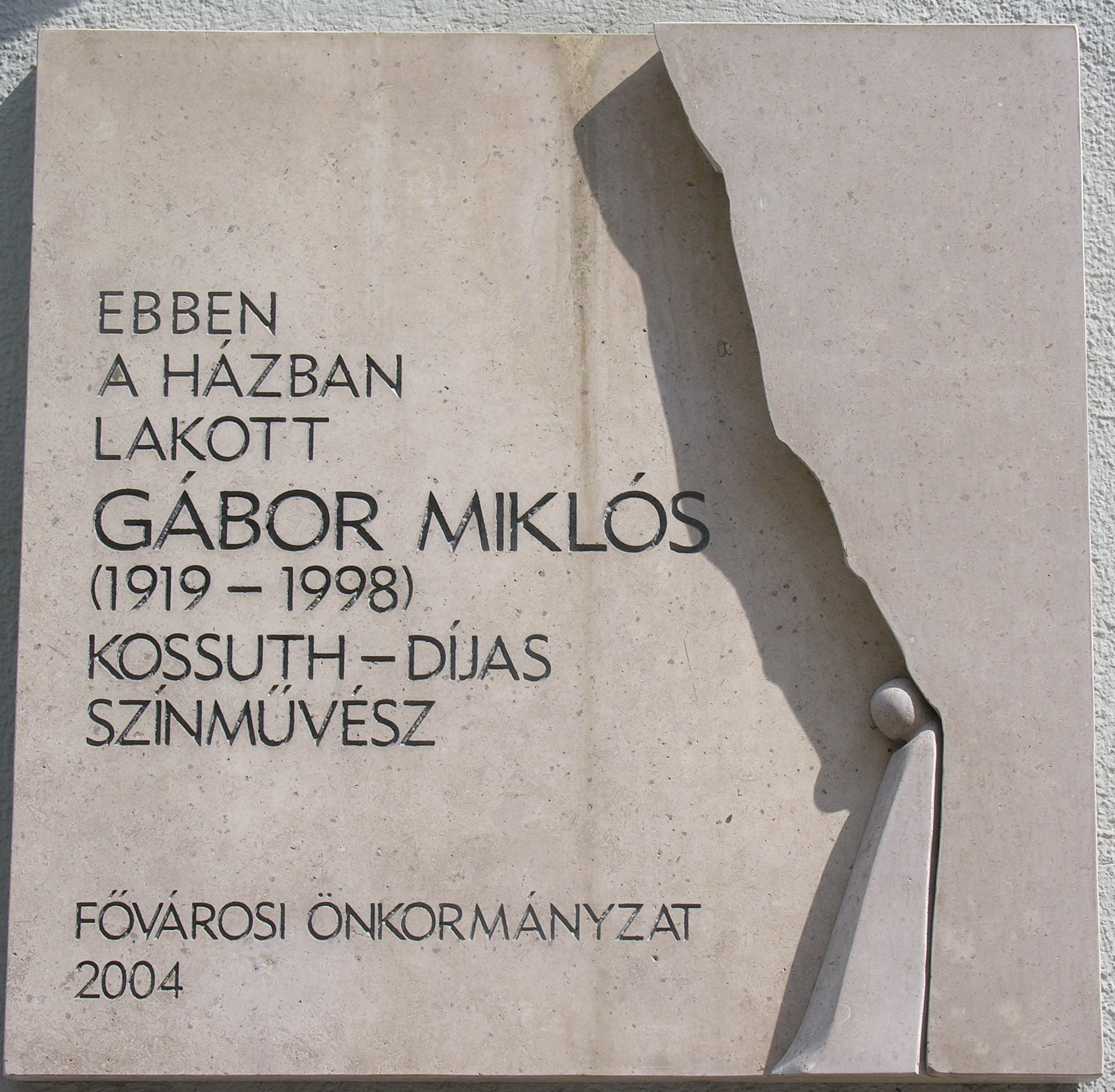 Commemorative plaque of Miklós Gábor in Budapest District XIII, Katona József Street No 27